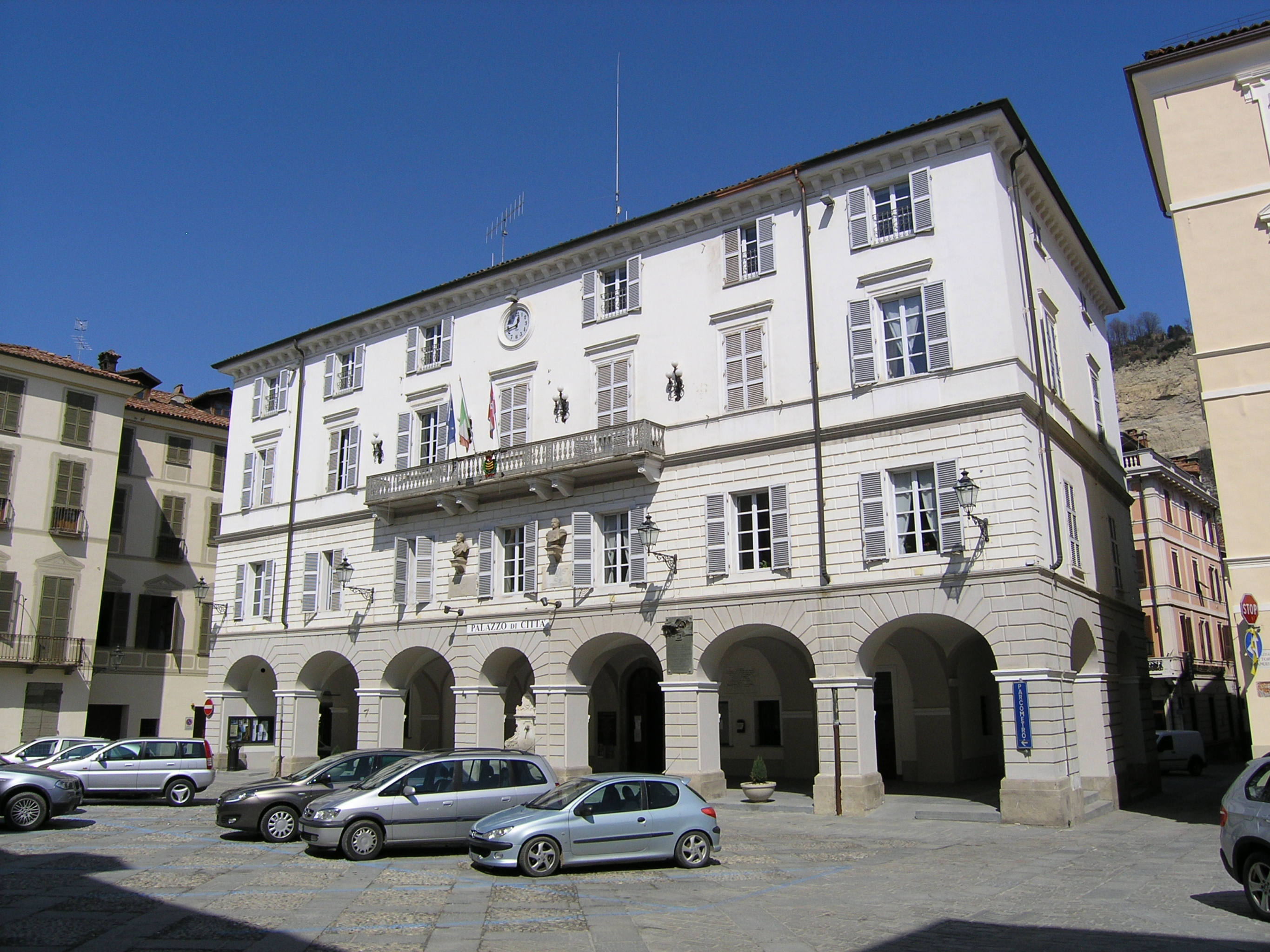 Picture of the town hall of Ceva, (Italy)